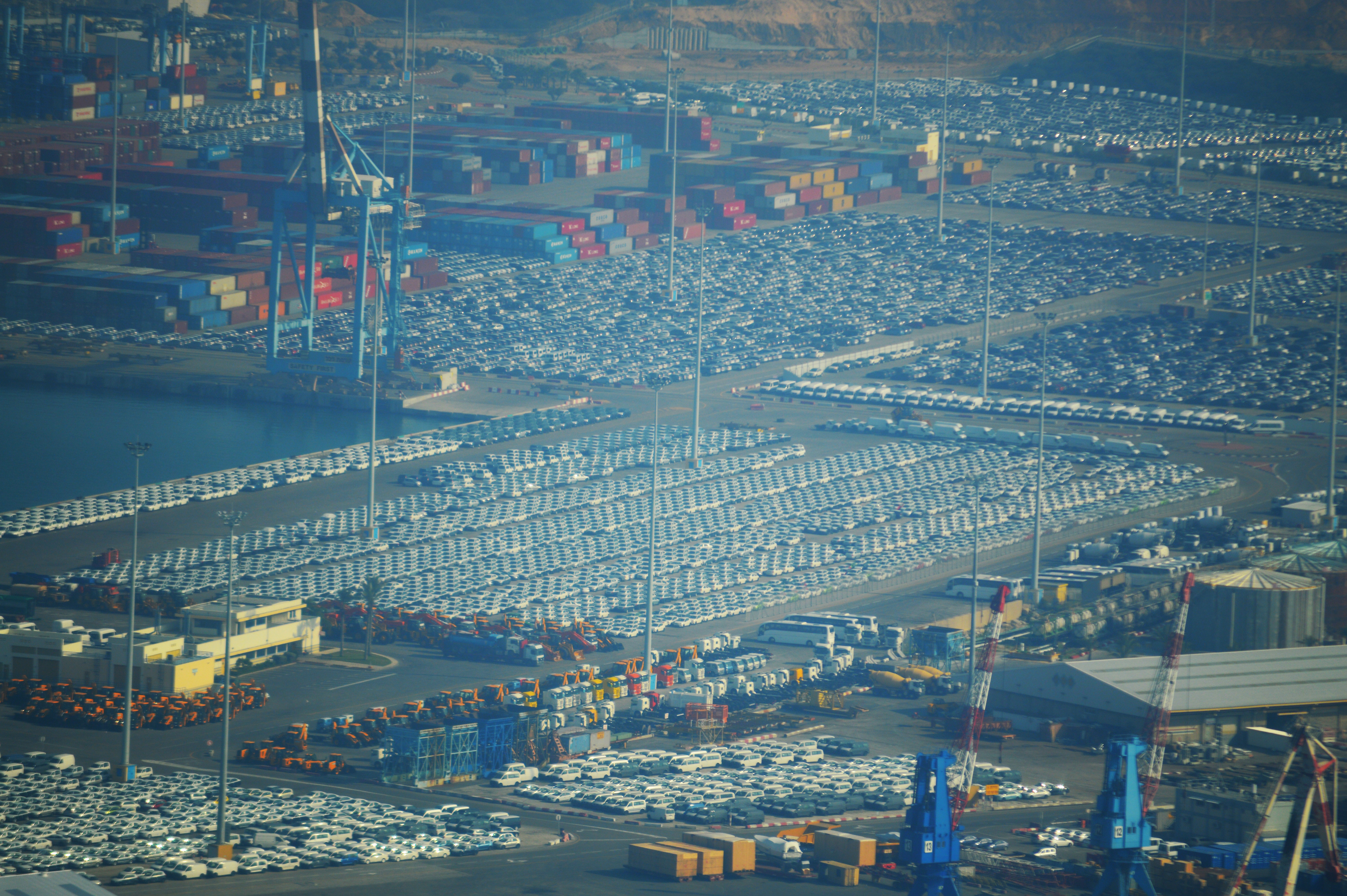 Cars in Ashdod Port, Aerial View